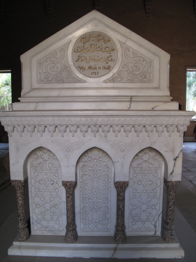 Neşedil Kadinefendi, (also known as Neşedil Qadin Hanim Efendi), (Arabic: نشئدل قادين افندی), (c. 1857 - 30 January 1924), was a consort to Khedive Isma'il Pasha of Egypt.